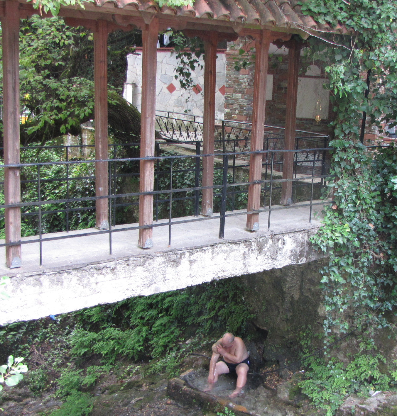 Agia Kori, holy water